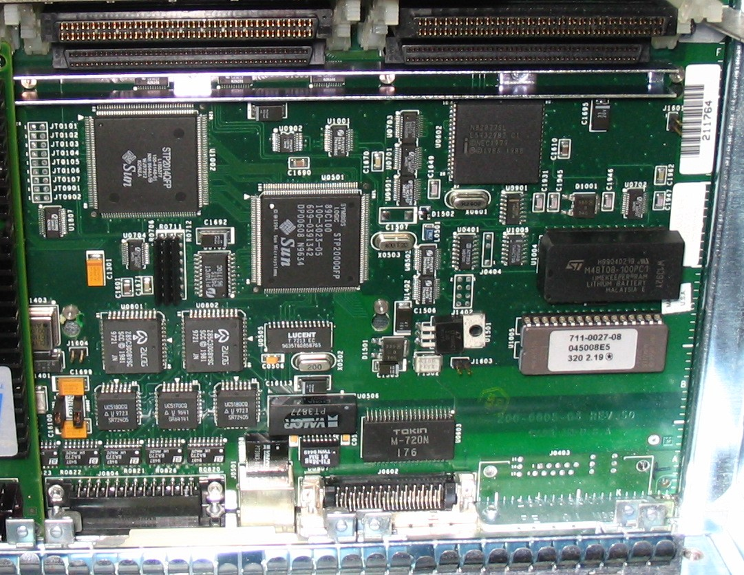 SBus-slots in a Axil-Workstation